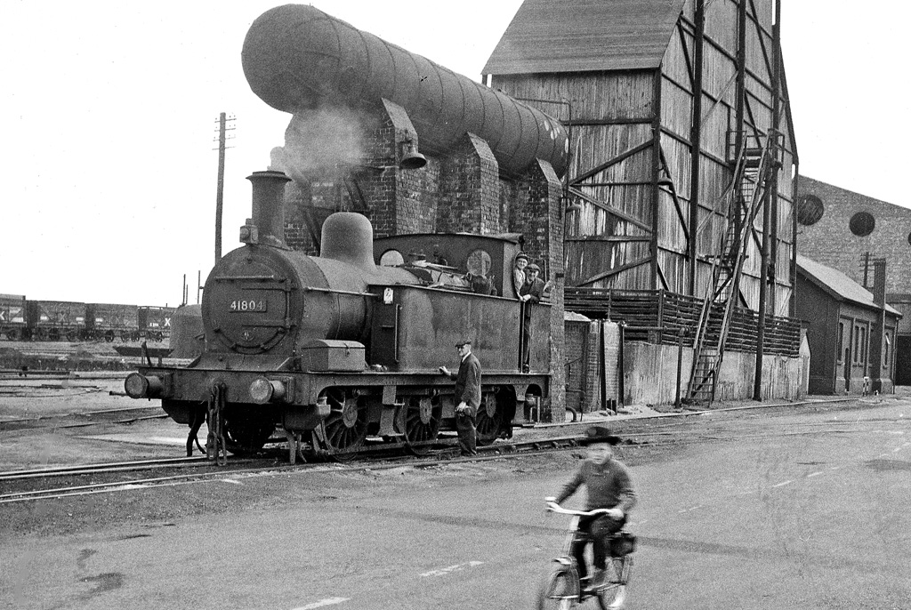 In Staveley Works: an ex-Midland 0-6-0T - and a little boy. The Staveley Iron & Steel (and Chemical) Works was unusual in hiring locomotives for internal shunting work from the Main Line Railways, in this case the Midland/LMSR/BR-London Midland Region. This resulted in four of the Midland 1F 0-6-0Ts of 1878 lasting several years after the rest of the class, allocated to Barrrow Hill Depot at Staveley, working at Staveley Works, of which No. 41804 here is one of them. How on earth the little boy on the bicycle came to be there is a mystery [The precise location of the photograph may well need correction] (Comment by Chris Bower [member of the public] - My father and grandfather worked at Staveley Works / Staveley Chemicals. I was born in 1957 and it was not unusual in the 50s and 60s for children to accompany their dads onto the site either on foot or on bike to pick up their dad's weekly wages - I heard my dad say his payroll number so many times that I can still quote it 50 years later "25 82 Bower". In the 60s I often went onto the old 100ton/day sulphuric acid plant where my dad worked and was allowed to press the fire alarm test button ! Dad's work colleages occasionally gave me an old sixpenny bit (2.5p) when I visited) .